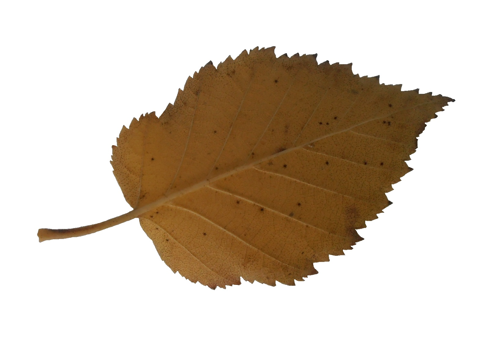 Leaf of monarch birch